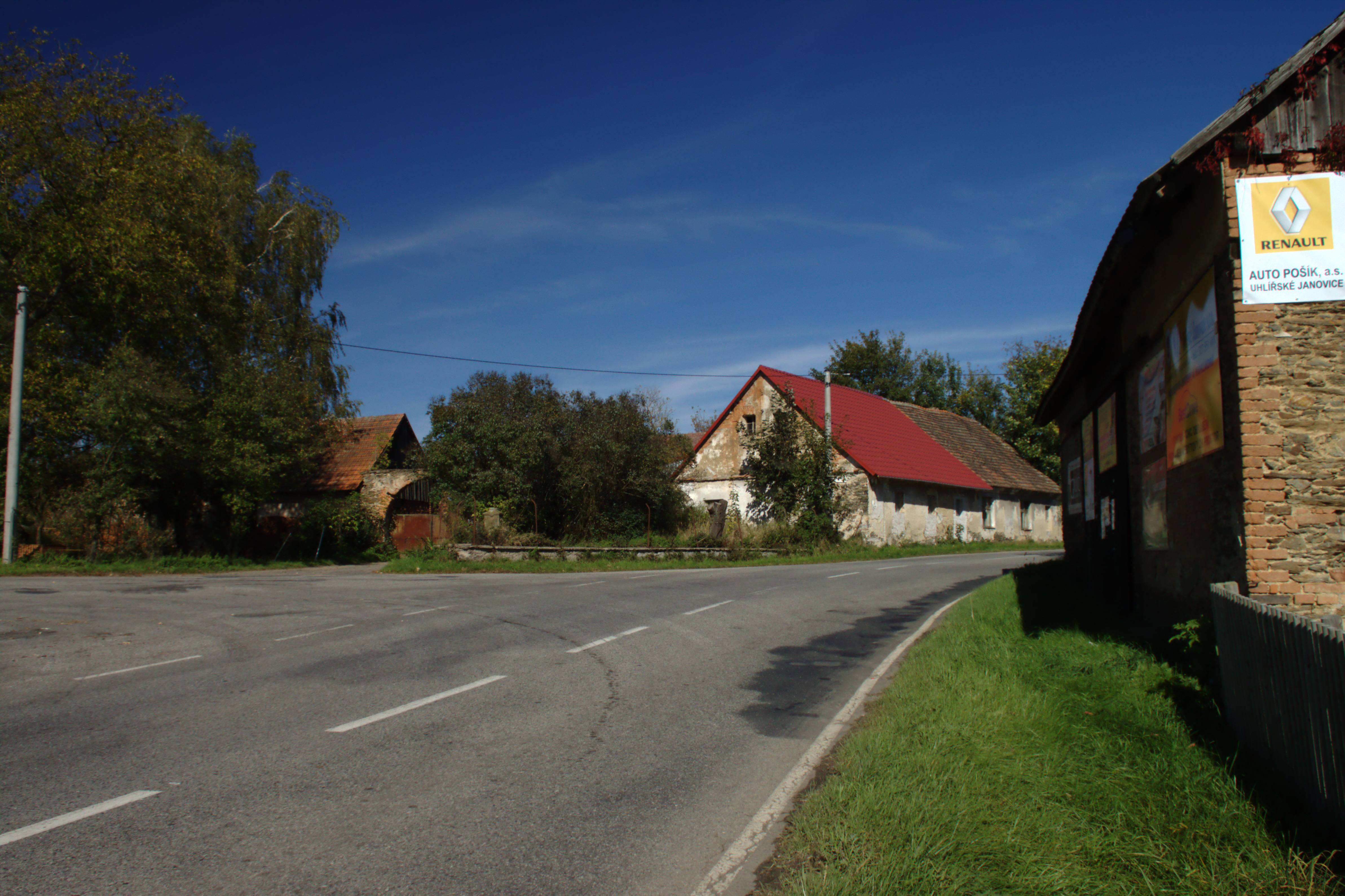 Nechyba settlement near Zbizuby, Central Bohemian Region, CZ